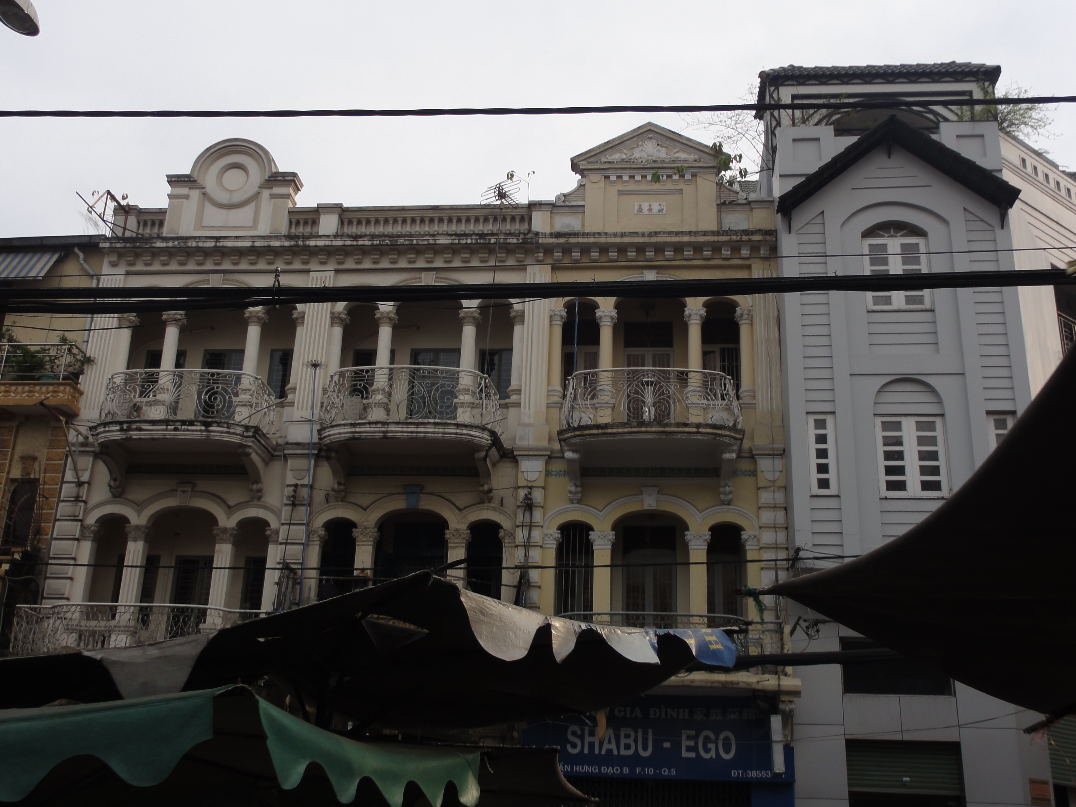 Traditional shophouses in Cholon, Saigon